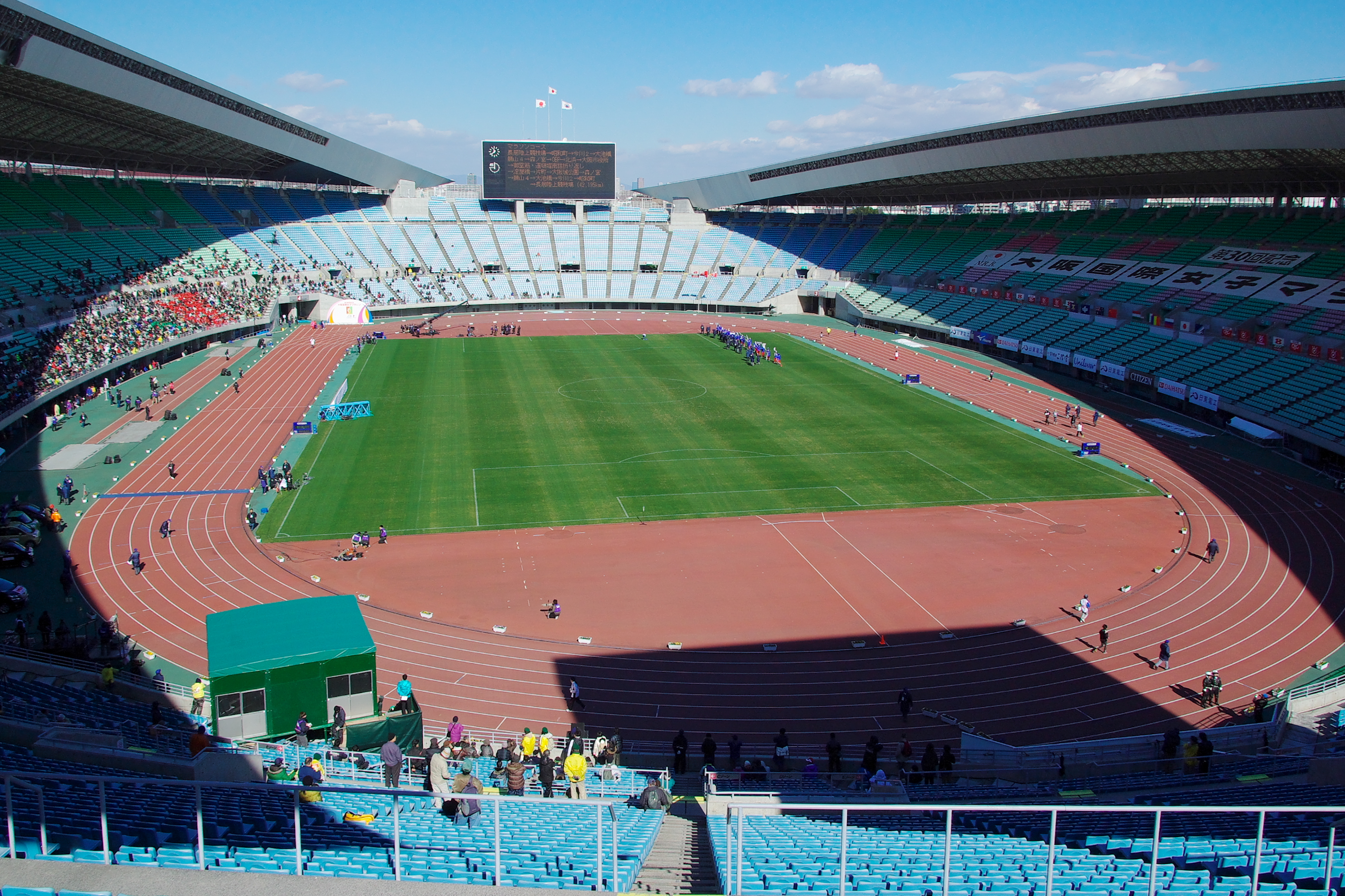 Photograph of the field and track, before starting off of 30th Osaka Women's Marathon, in Nagai Stadium, Higashisumiyoshi-ku, Osaka, Osaka Prefecture, Japan.